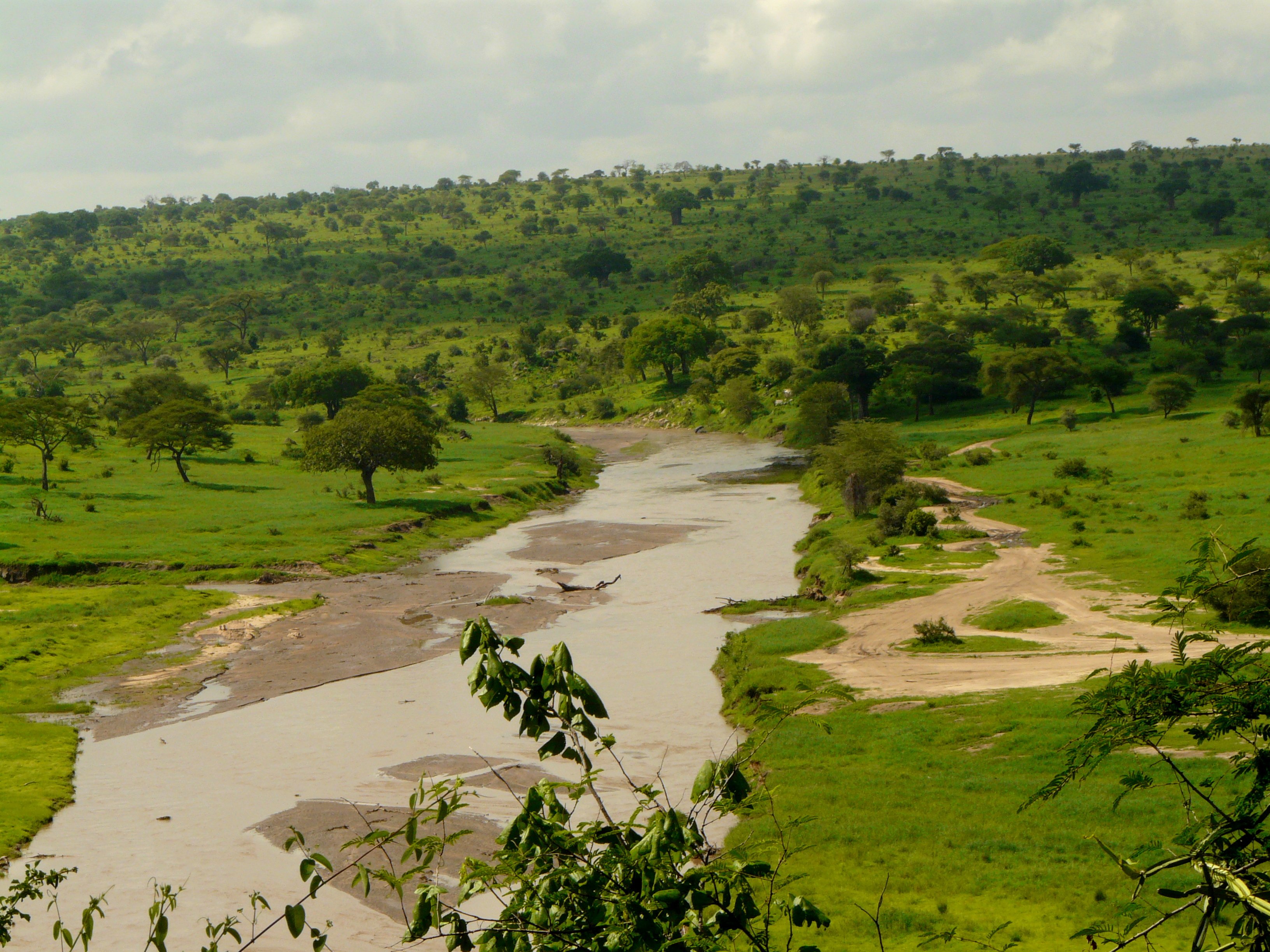 River